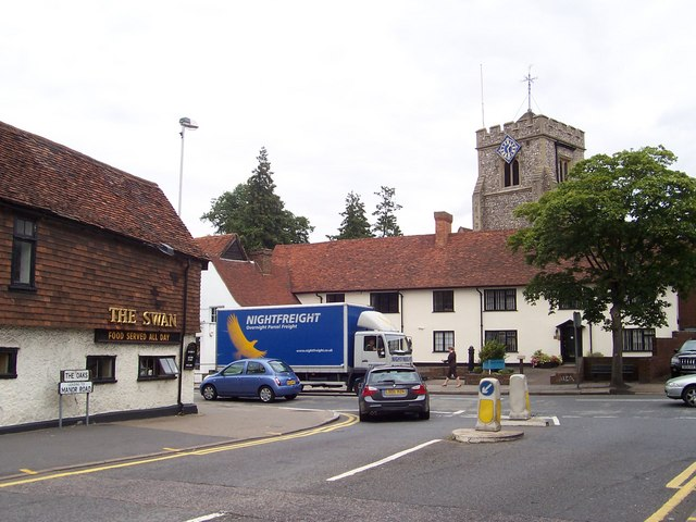 High Street Ruislip Approaching The High Street from The Oaks